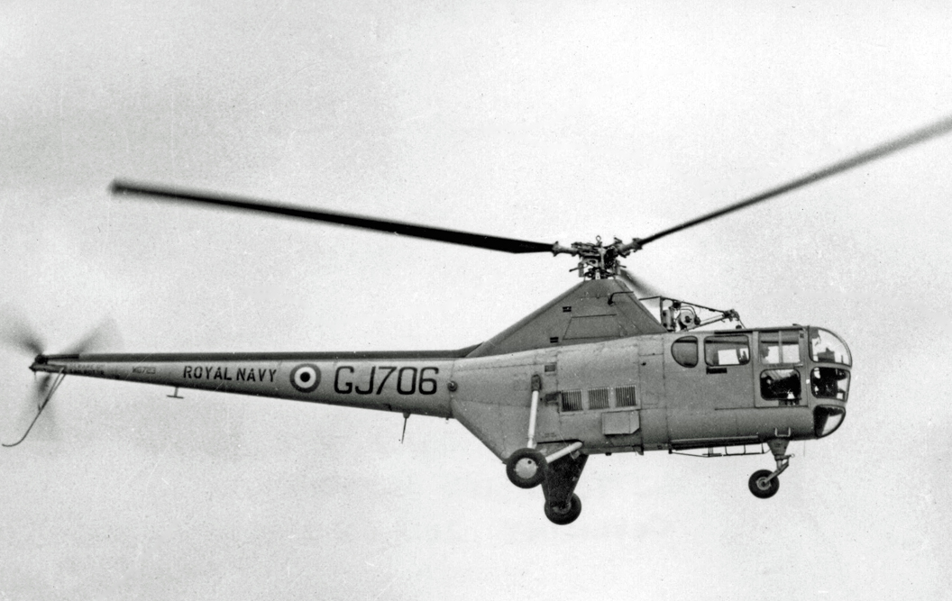 Westland WS-51 Dragonfly HR.3 WG723 of 706 Squadron Royal Navy in 1955